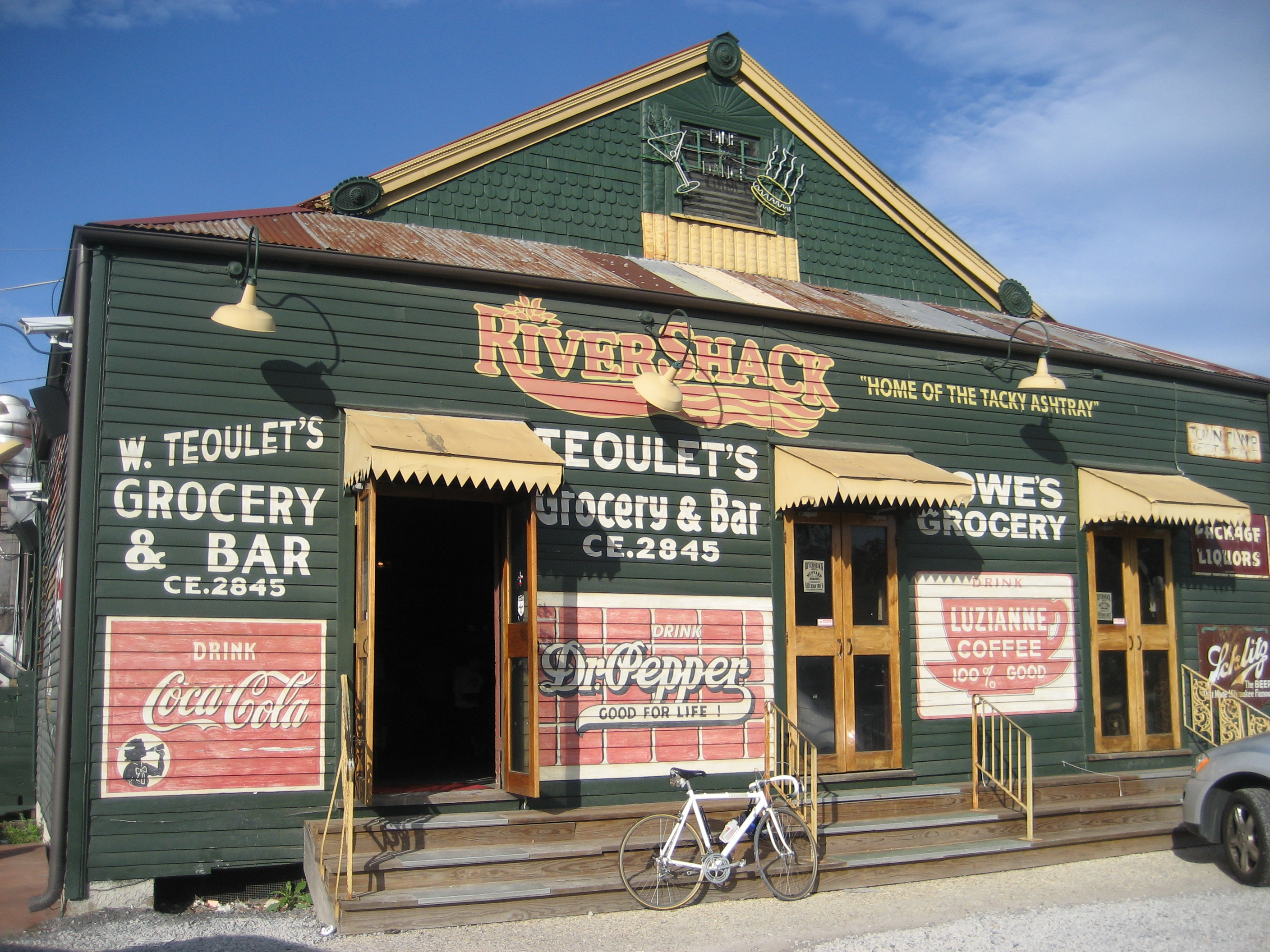 Rivershack Tavern, Shrewsbury, Jefferson Parish, Louisiana. In the 1990s during repairs siding was removed and the old painted exerior largely intact from some 50 years earlier was discovered underneath. This was restored and retained as the fascade.